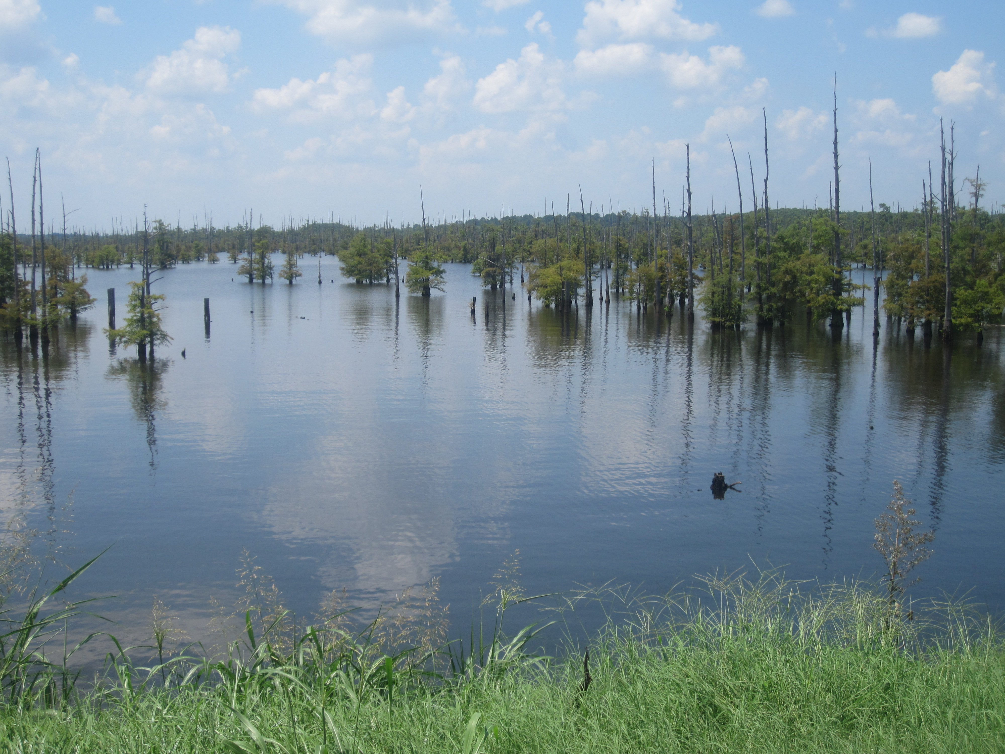 Revised photo of cypress trees in Black Lake